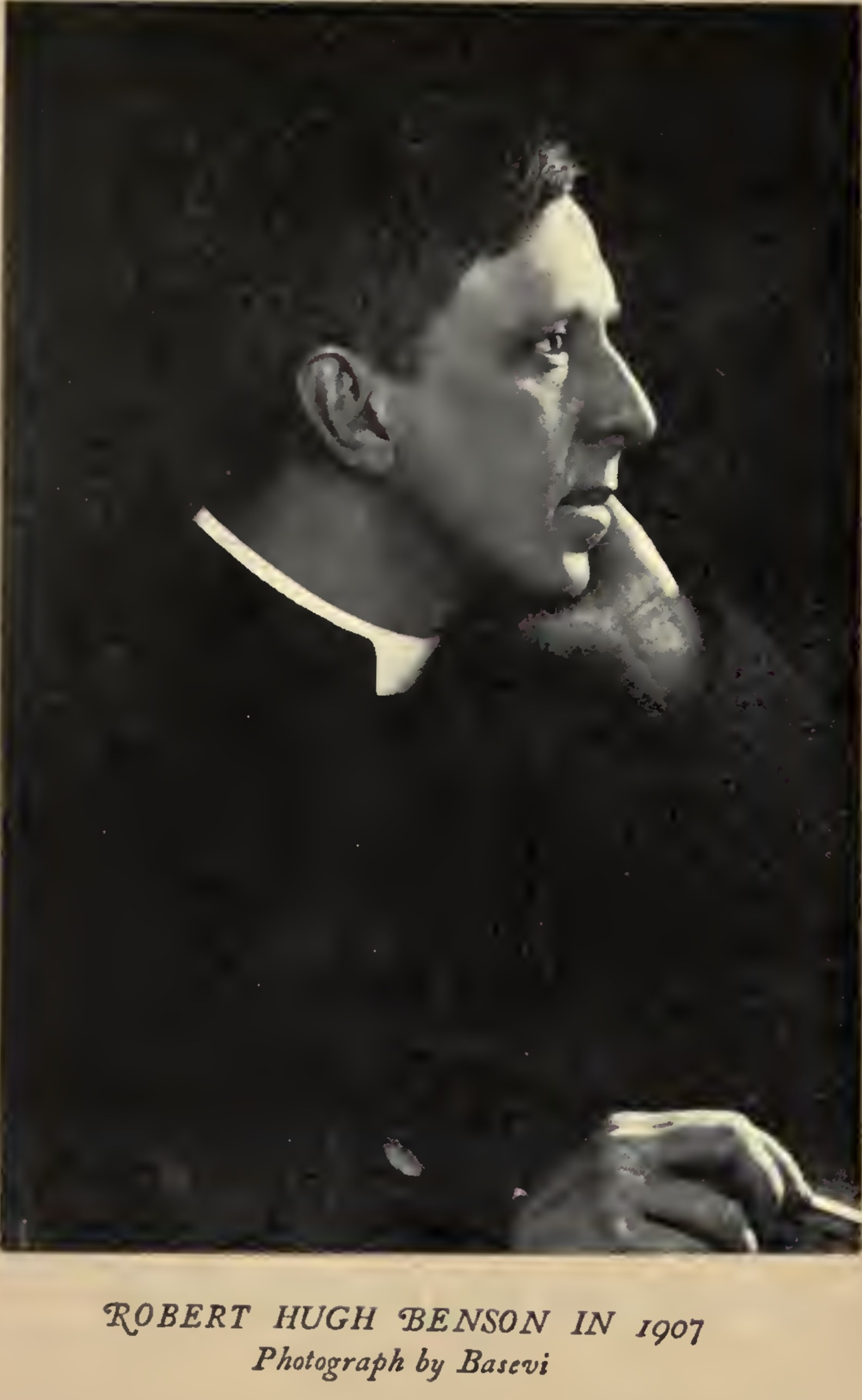 From the book Memorials of Robert Hugh Benson